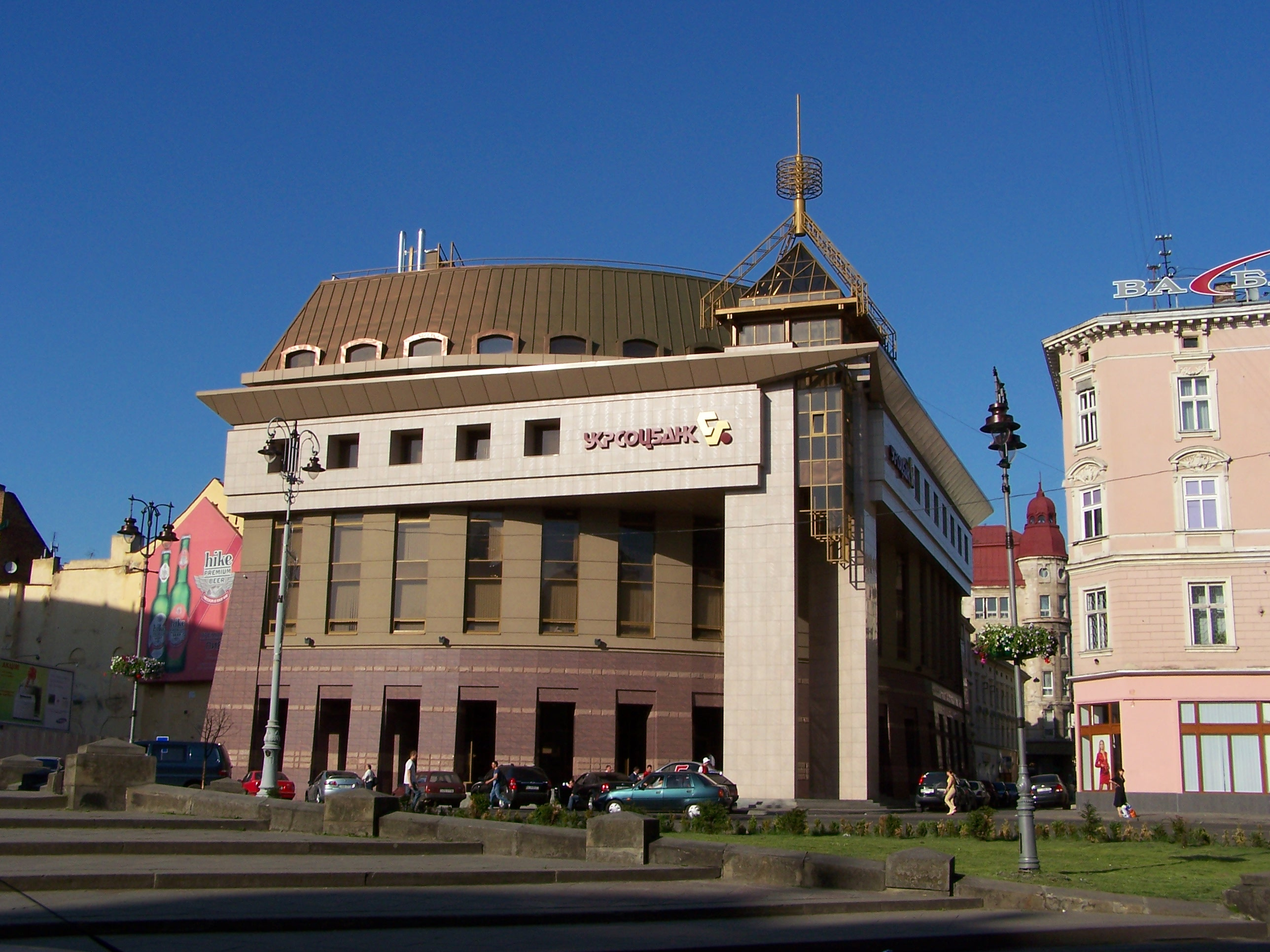 Mickiewicz square in Lviv (Ukraine).